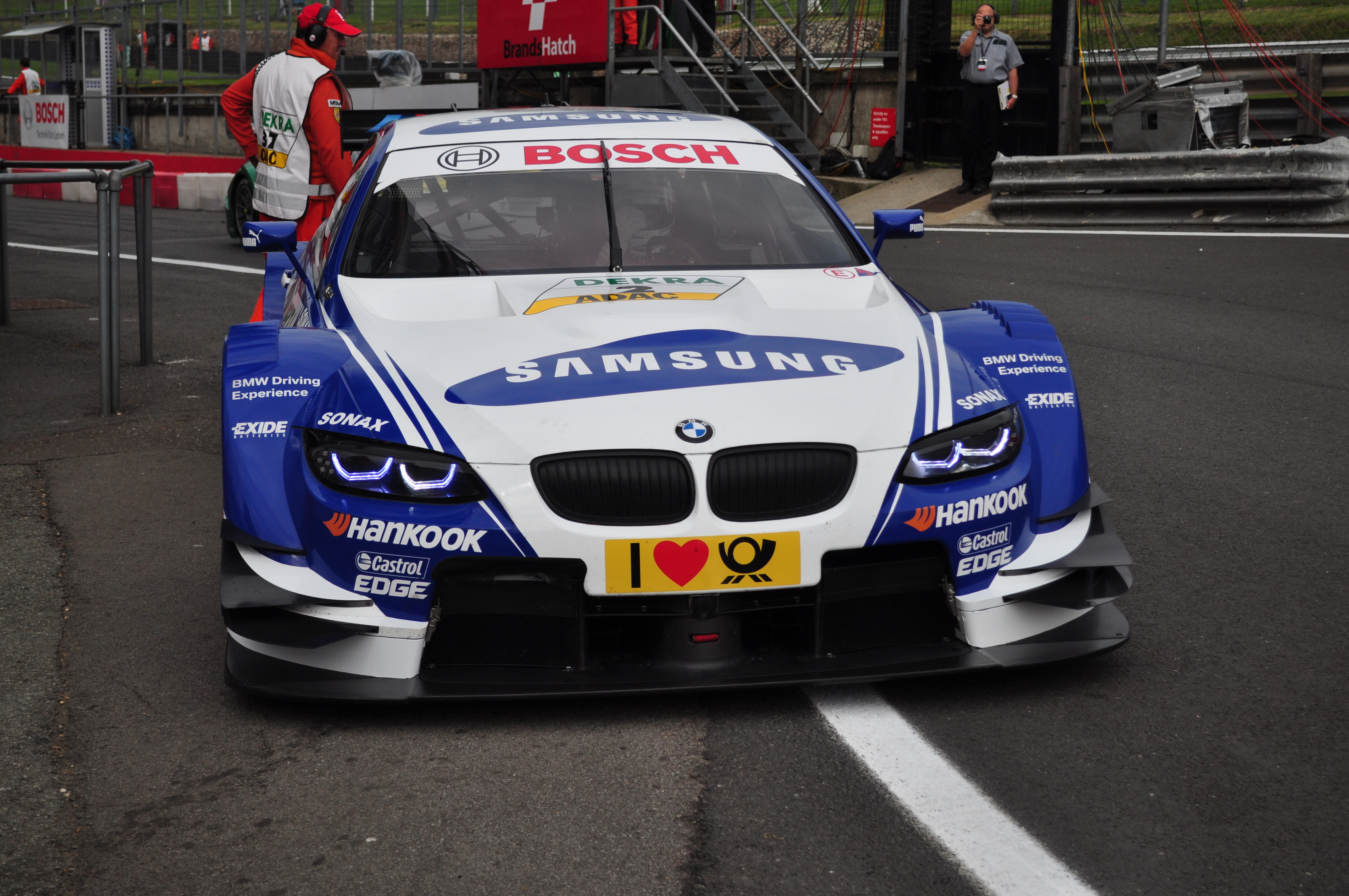 DTM Brands Hatch